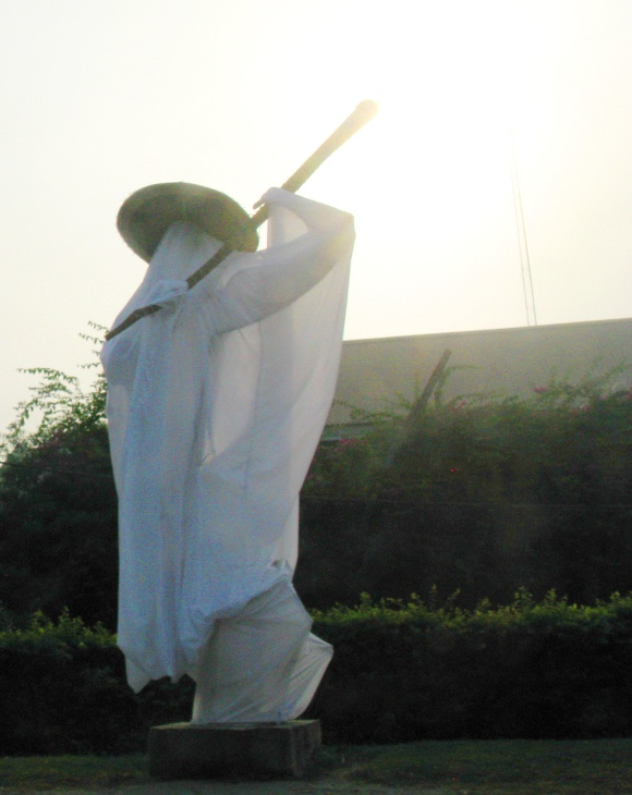 An Eyo figure in Ikoyi, Lagos, Nigeria, advertising the upcoming Eyo festival